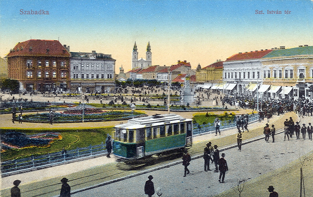 Postcard, undated ( ca.1914 ). Title: "Szabadka - Saint Stephen´s square".